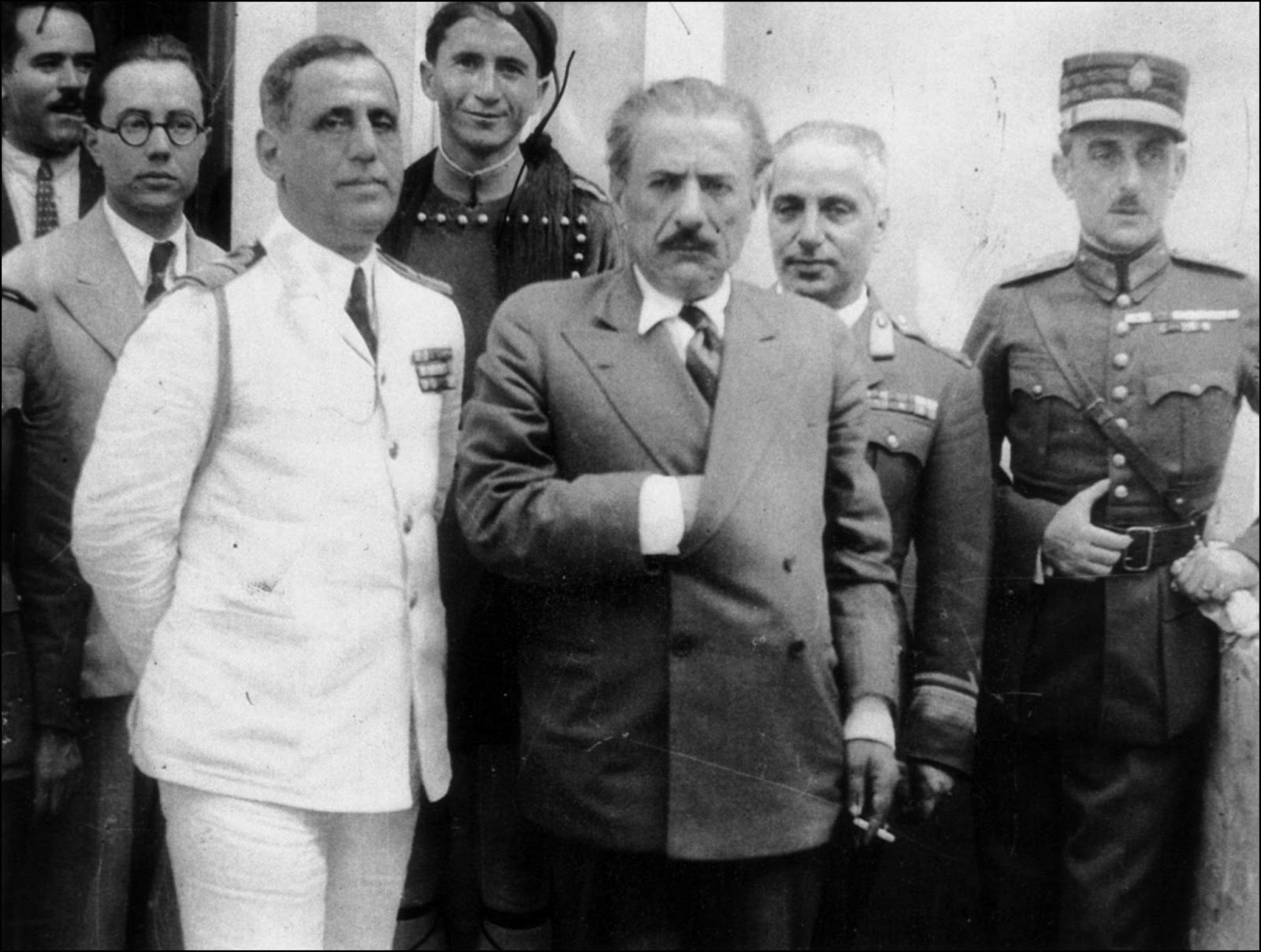 The new regent and Prime Minister Georgios Kondylis (centre), flanked by the heads of the Greek armed forces, Rear Admiral Oikonomou (left), Air Vice-Marshal Reppas (to the right of Kondylis) and Major General Alexandros Papagos *far right), one day after the overthrow of the civilian government and the abolition of the Second Hellenic Republic